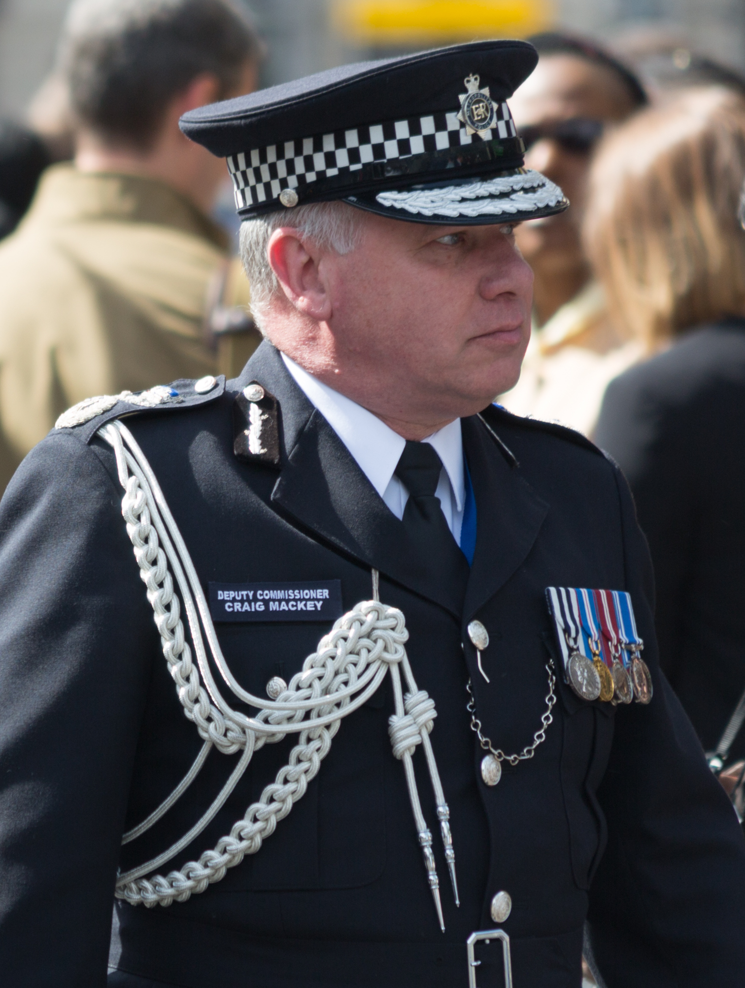 Funeral procession of Keith Palmer